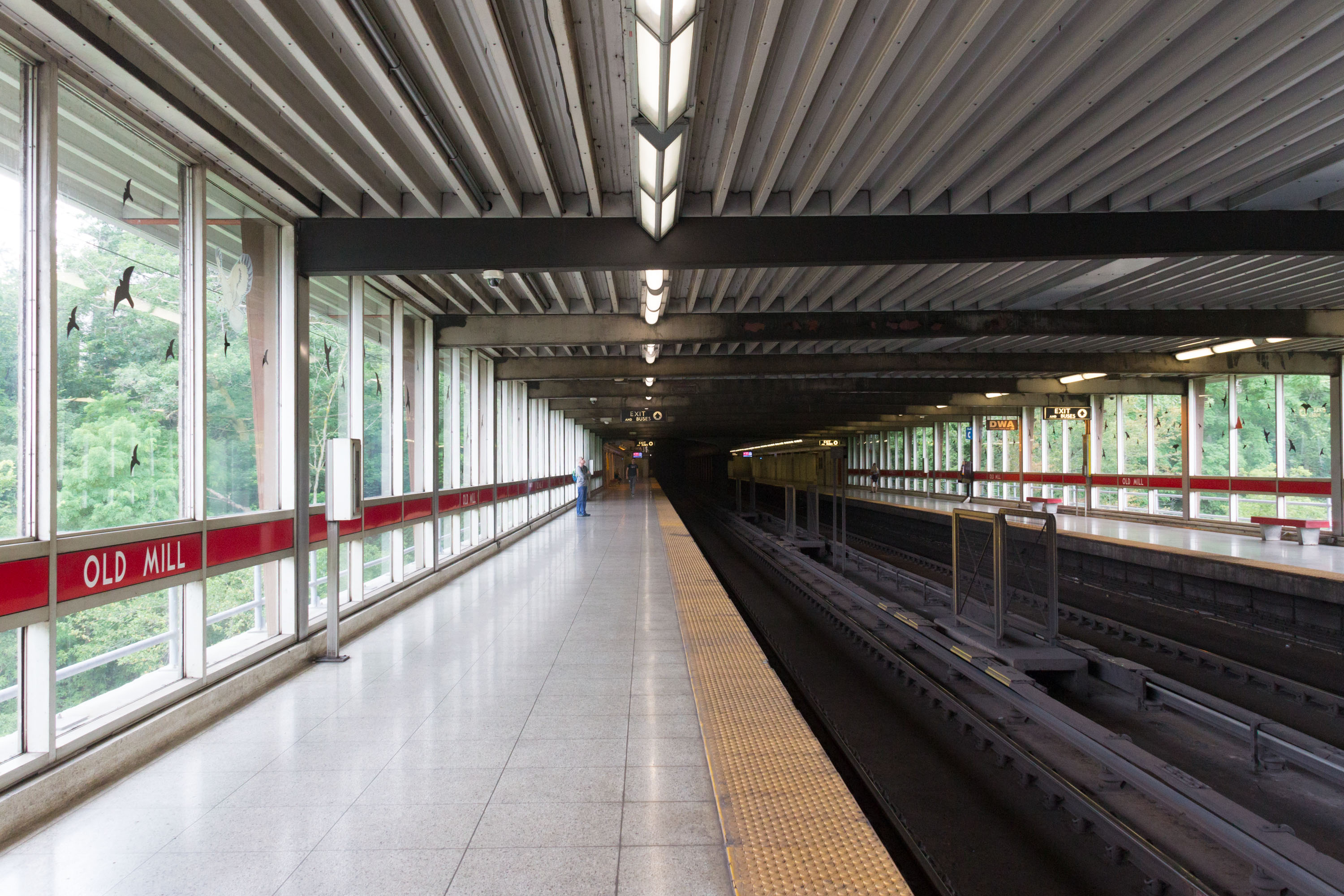 Old Mill Plaform